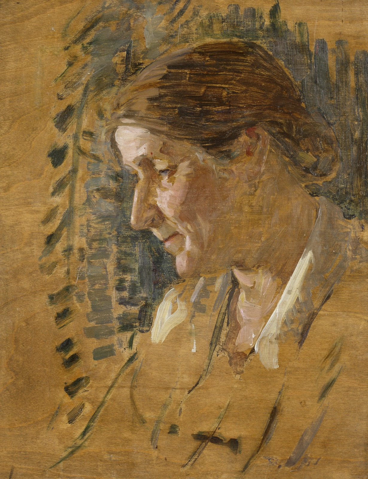 Oil painting portrait by Dora L Wilson of artist Jessie Traill